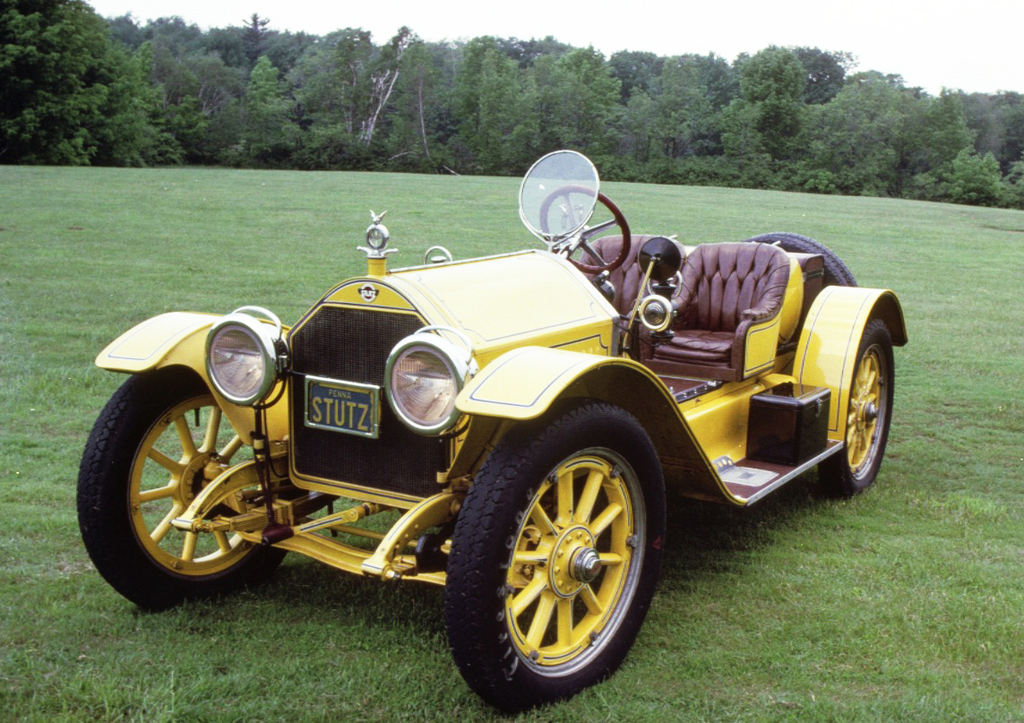 1914 Stutz Bearcat owned by Antony "Tony" Koveleski in 1985